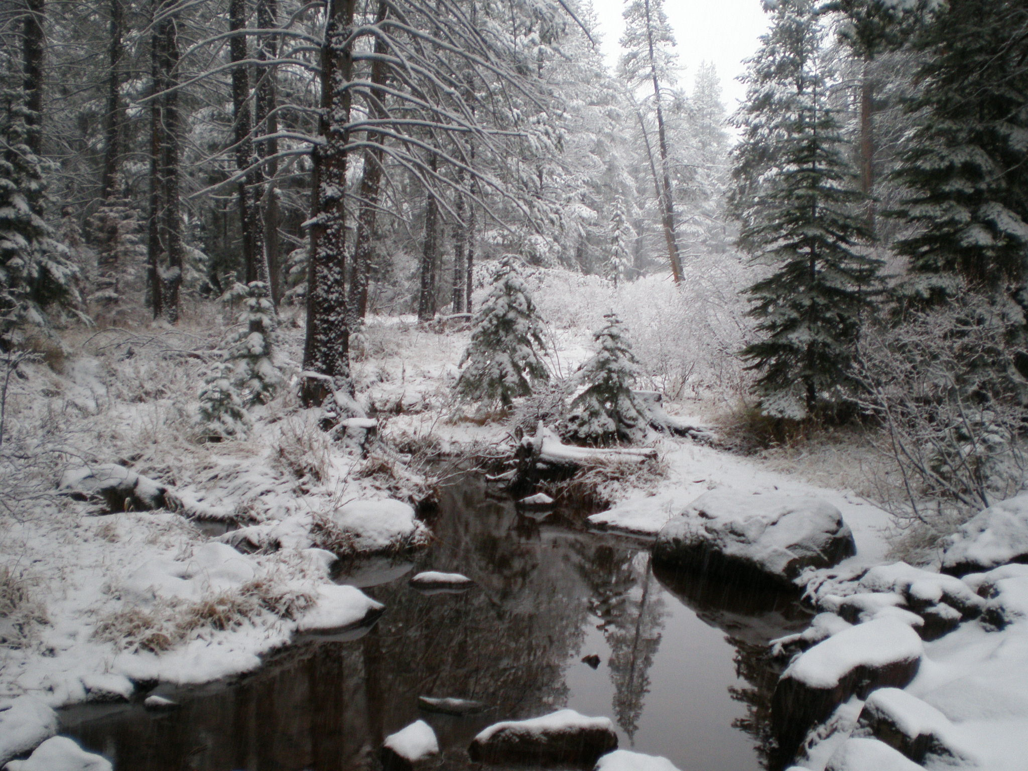 First snow of winter. Truckee, California. December 2007